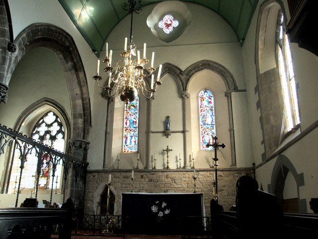 Interior of the Church of St Mary Le Wigford, Lincoln The Mayor and Corporation gave the brass chandelier, which hangs in the choir, in 1720.